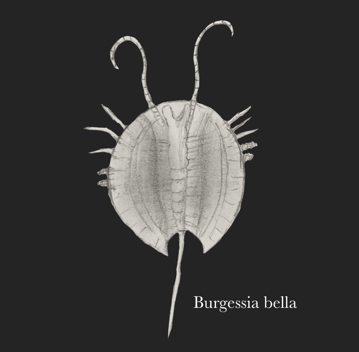 A reconstruction of Burgessia bella